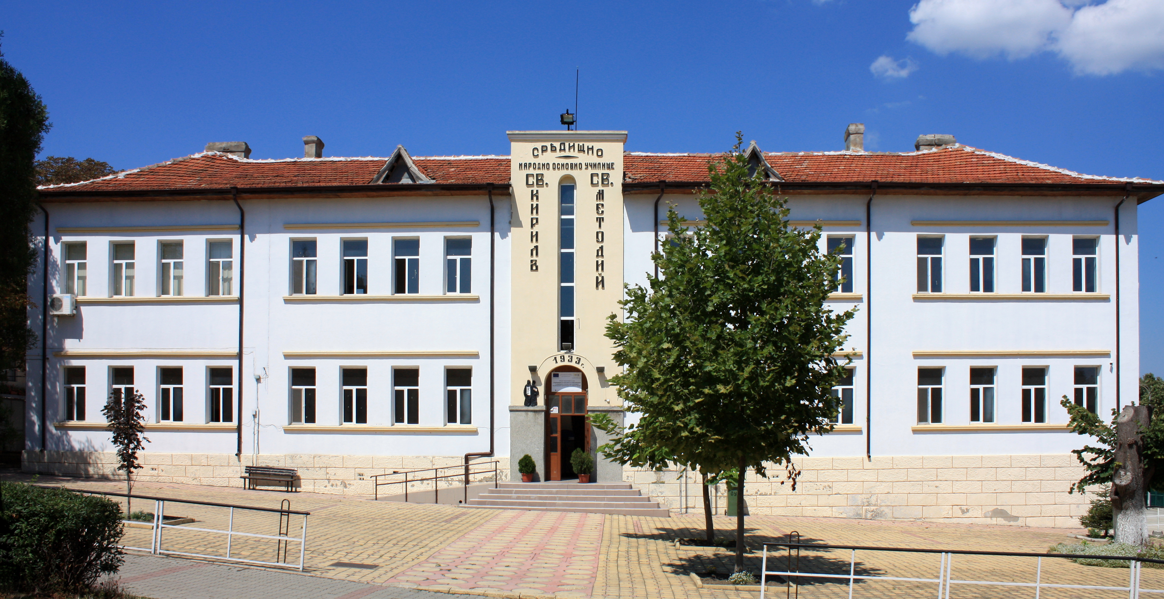 Primary school Saints Cyril and Methodius in Obzor (Bulgaria), built in 1933.